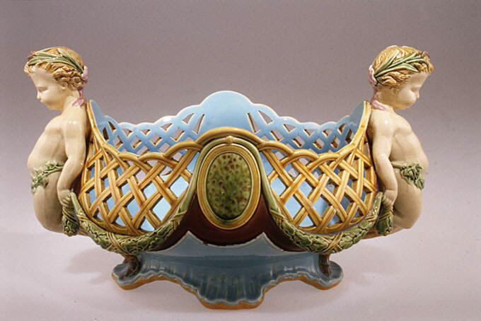 British, Stoke-on-Trent, Staffordshire; Vase; Ceramics-Pottery